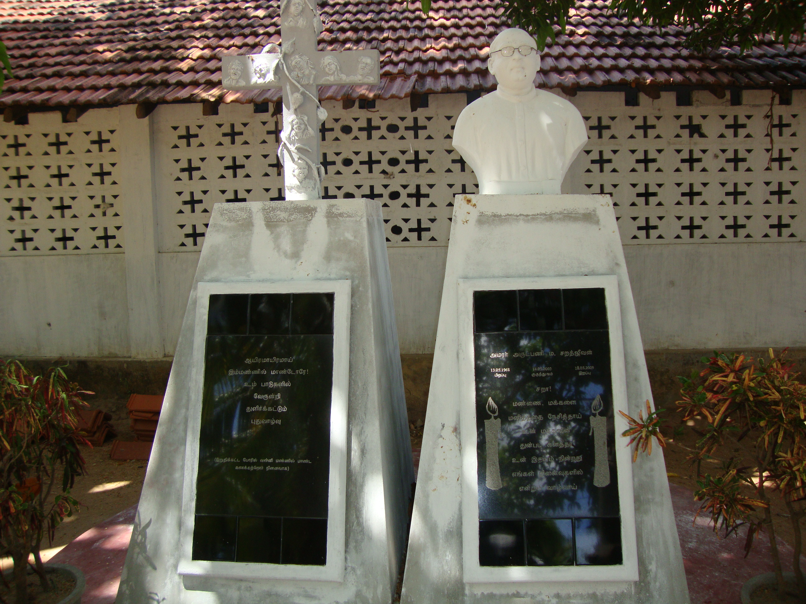 This is the statue of late Rev. Fr. Sarathjeevan who died in Sri Lankan war zone along with refugees whom he was helping. In May 2009, a 30 year civil war in Sri Lanka was won by the Sri Lankan government with thousands of causalities. Most of the causalities were civilians trapped in the war zone. Only eight catholic priests remained to help people even after the International Red Cross and the United Nations High Commission for Refugees left because of the concern about their safety. One of those eight priest Rev. Fr. Sarathjeeven died on the last day, May 18, 2009.